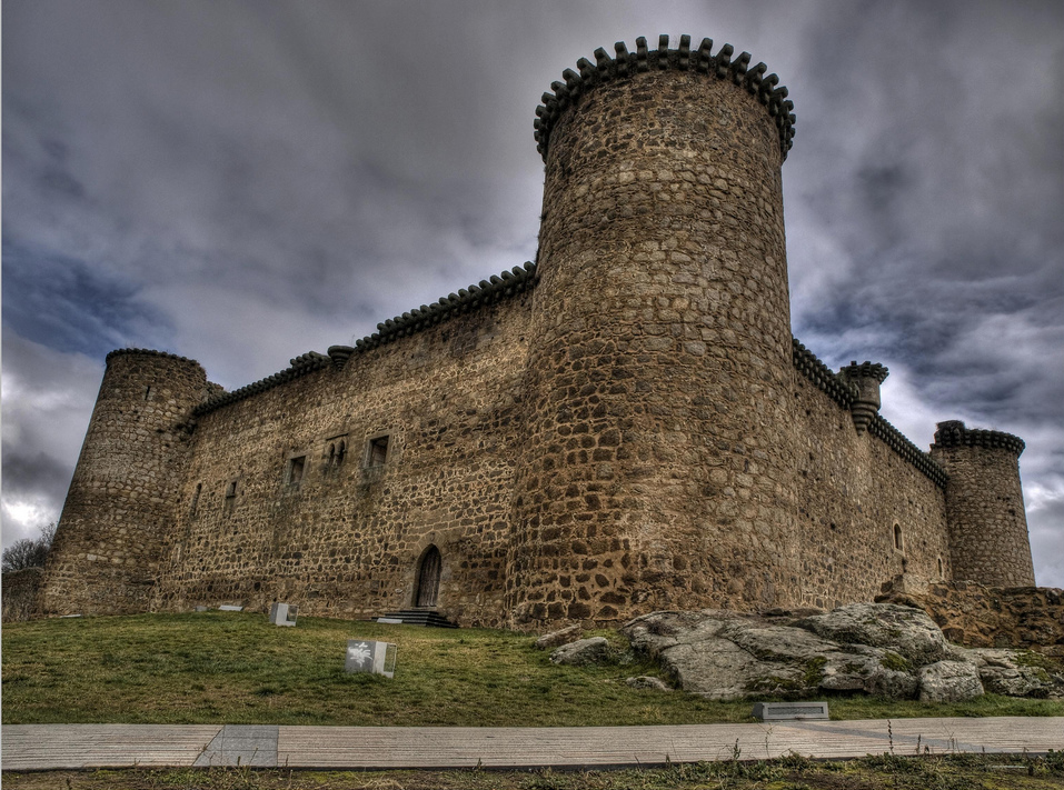 Castillo de Valdecorneja